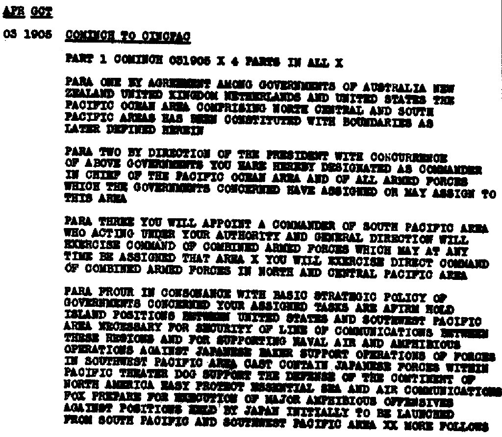 Message: 03 1905 APR 1942 COMINCH to CINPAC